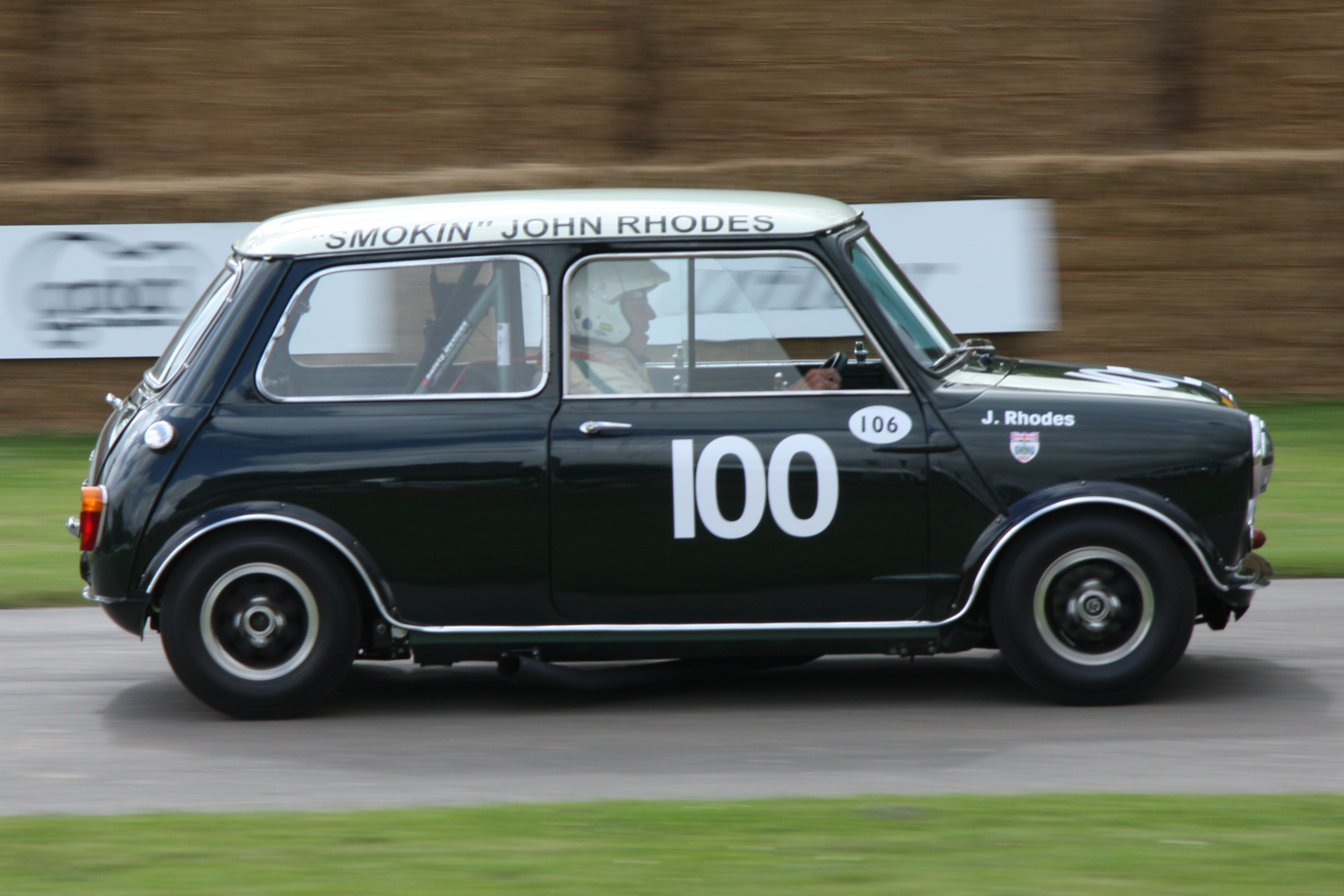 Replica of 1965 original. 1.3 litre 4 cylinder